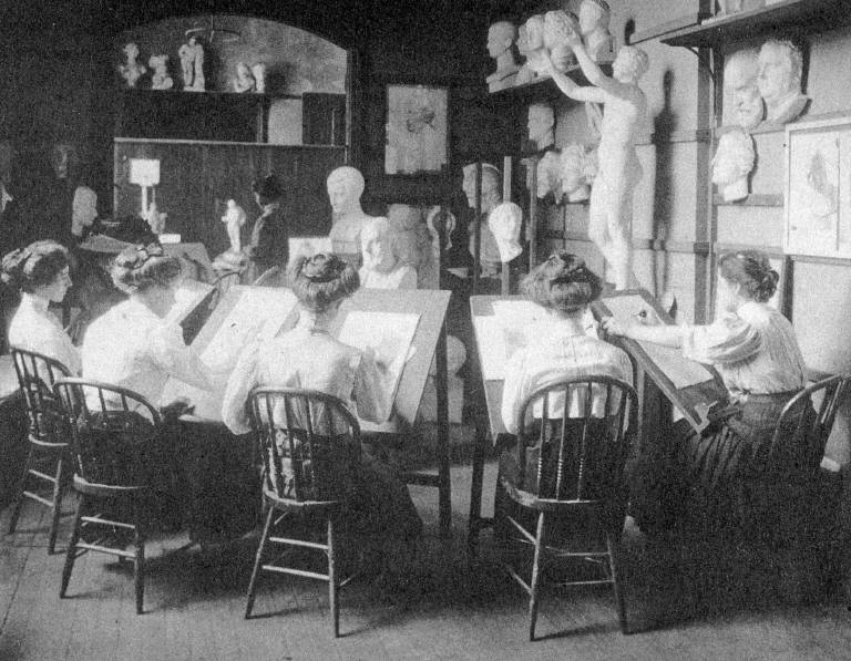 Female students in drawing class at Street Hall, Yale School of Fine Arts